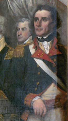 The scene of the surrender of the British General John Burgoyne at Saratoga, on October 17, 1777, was a turning point in the American Revolutionary War that prevented the British from dividing New England from the rest of the colonies. The central figure is the American General Horatio Gates, who refused to take the sword offered by General Burgoyne, and, treating him as a gentleman, invites him into his tent. All of the figures in the scene are portraits of specific officers. Trumbull planned this outdoor scene to contrast with the Declaration of Independence beside it.John Trumbull (1756–1843) was born in Connecticut, the son of the governor. After graduating from Harvard University, he served in the Continental Army under General Washington. He studied painting with Benjamin West in London and focused on history painting. Major figures in the painting (from left to right, beginning with mounted officer): American Captain Seymour of Connecticut (mounted) American Colonel Scammel of New Hampshire (in blue) British Major General William Phillips (British Army officer) (in red) British Lieutenant General John Burgoyne (in red) American Major General Horatio Gates (in blue) American Colonel Daniel Morgan (in white) A full key is available here. The dimensions of this oil painting on canvas are 365.76 cm by 548.64 cm (144.00 in by 216.00 in).